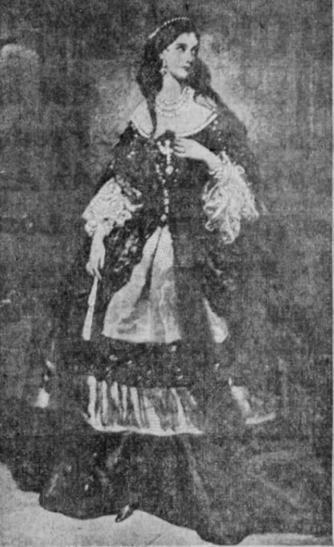 1858 portrait of Adeline, Countess of Cardigan and Lancastre from the American Magazine Section of the San Francisco Examiner, October 31, 1909, page 5